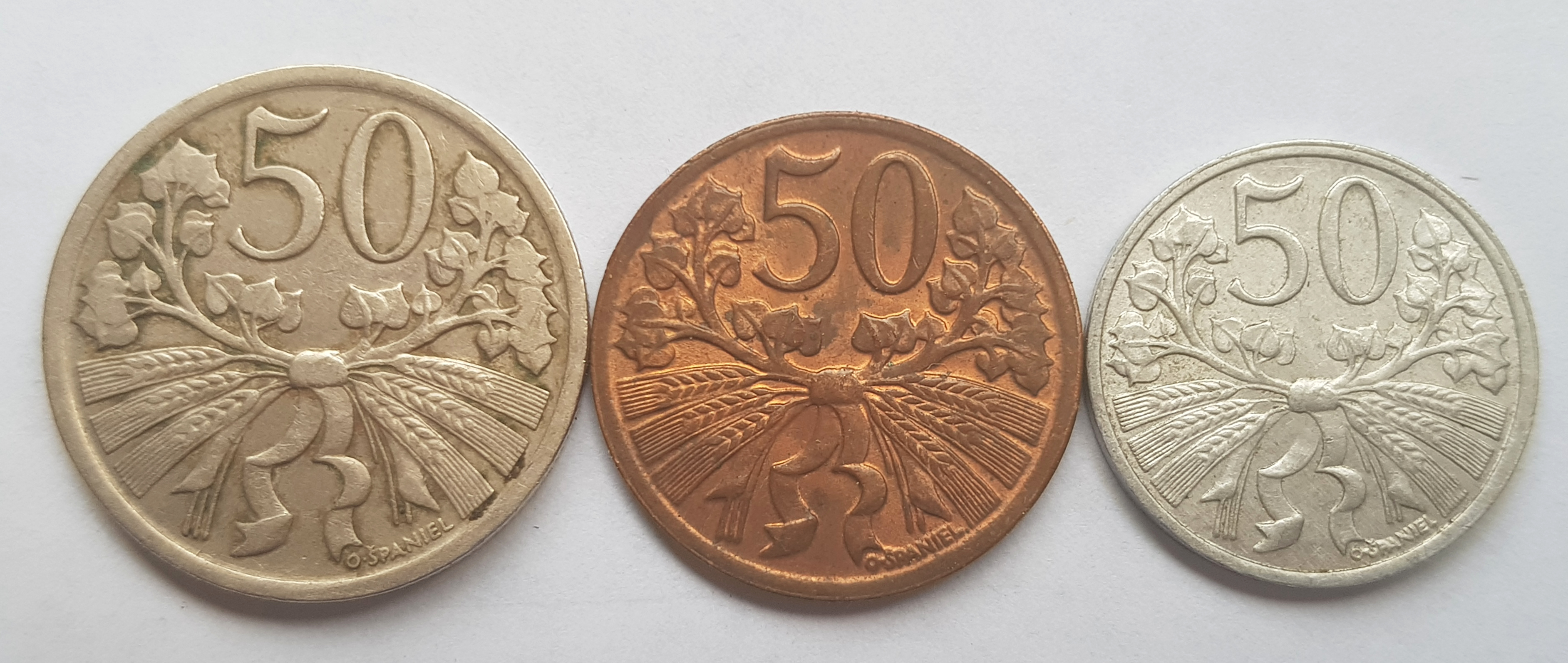 Reverses of the Czechoslovak 50 heller coins — from left to right — cupronickel (1921—1931), brass (1947—1950) and aluminium (1951—1953)